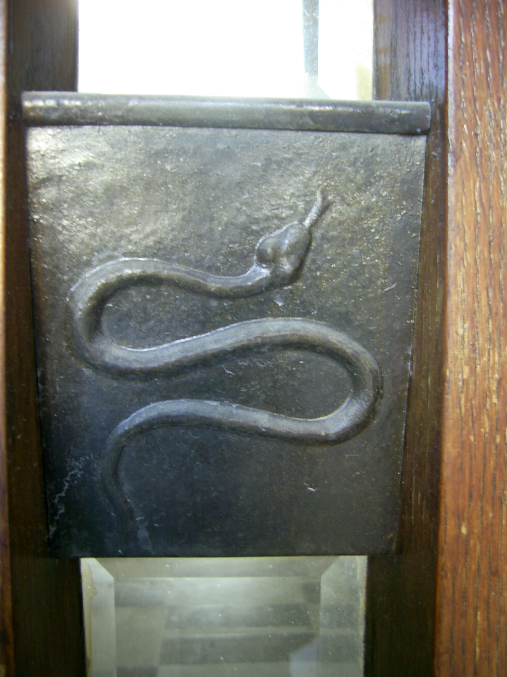 Dan Tribe plate on gate to Heichal Shlomo, Jerusalem.